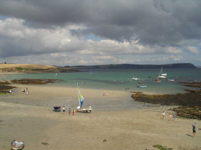 Portscatho.